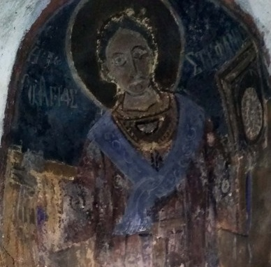 Babchor Church Fresco